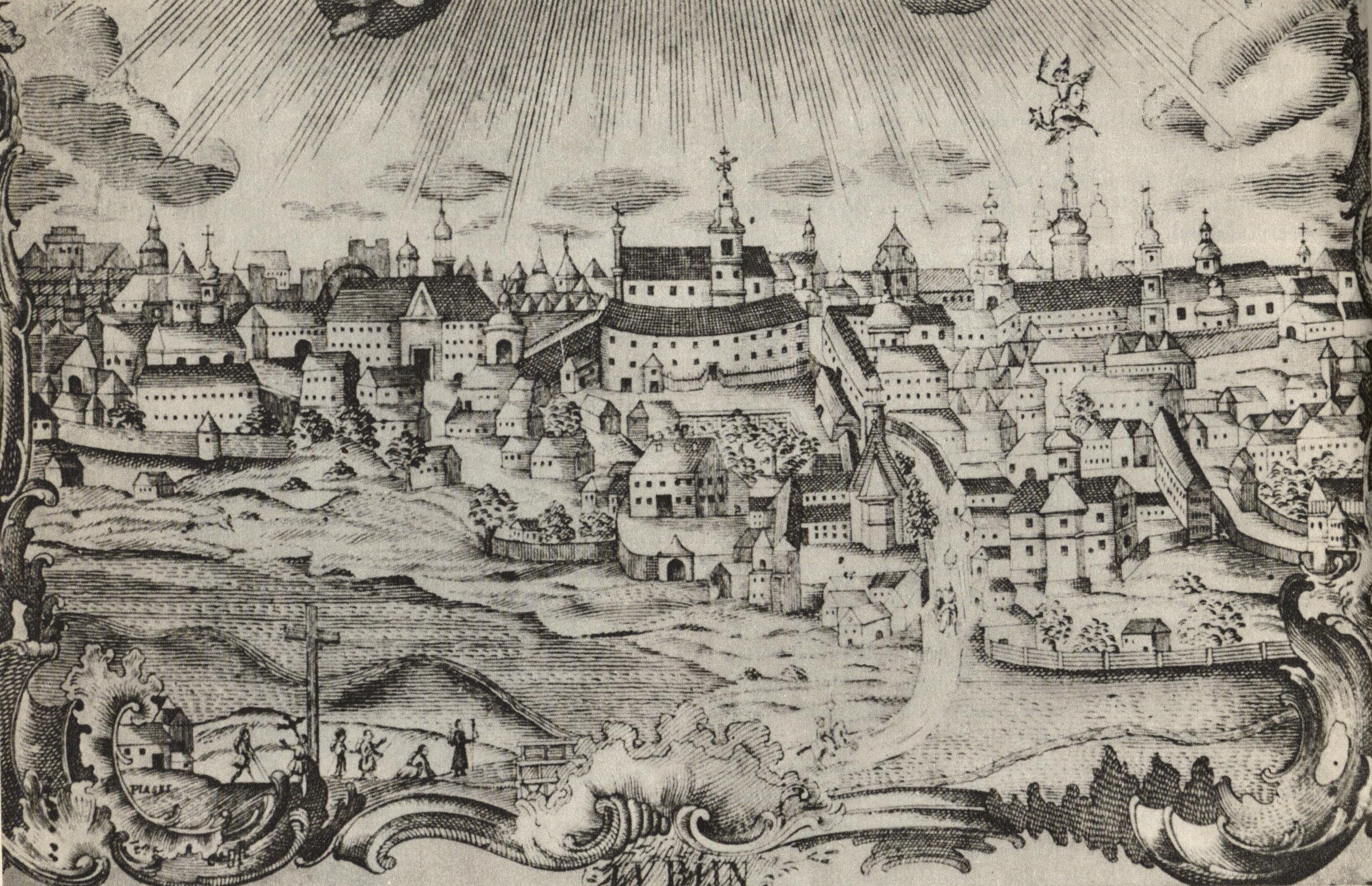 South districts of Lublin in 1774.